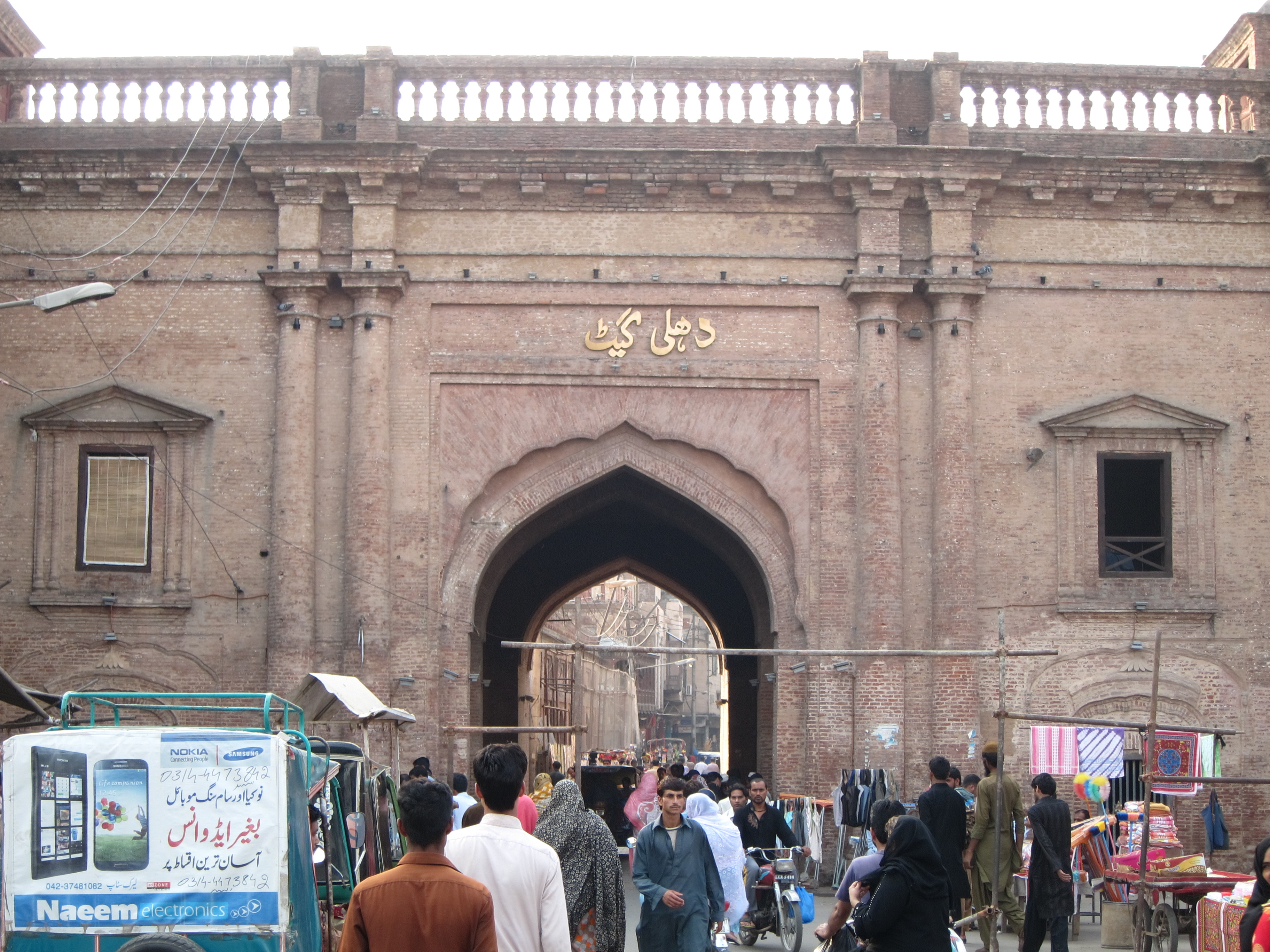 Delhi Gate This is a photo of a monument in Pakistan identified as the PB-50